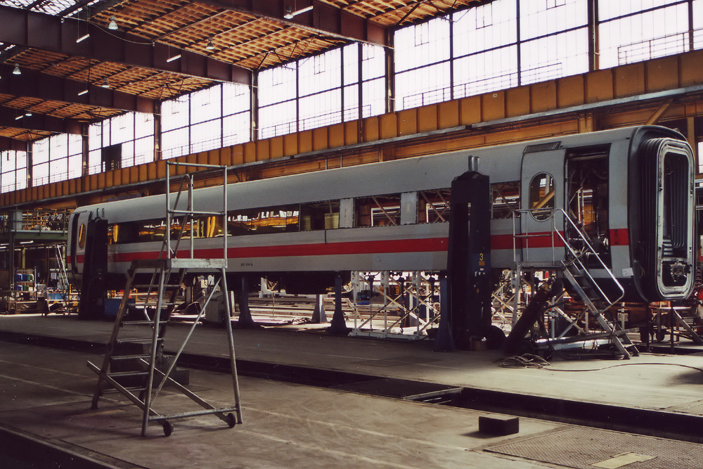 An ICE 1 car being "redesigned" at the repair center Nuremberg.